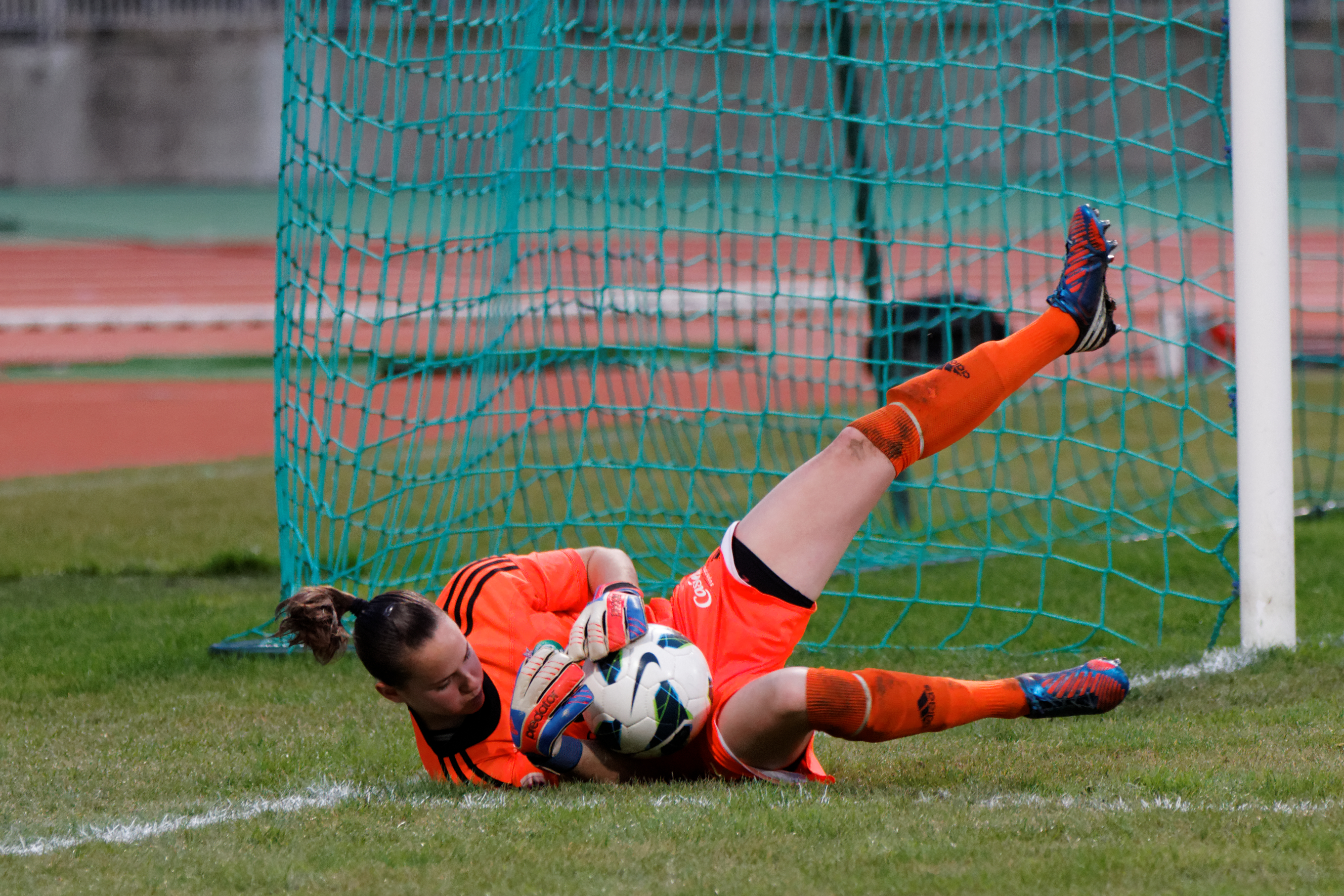 PSG-AS Saint-Étienne, december 16th, 2012.